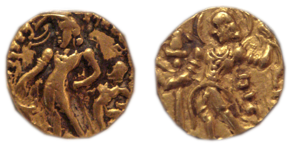 Two coins of Chandragupta II. Guimet Museum. WARNING: This image is not of one coin, but of two different coins. The one on the left is the obverse of a so-called "Chhatra" type of Chandragupta II, while the one on the right is the obverse of a so-called "Archer" type of Chandragupta II.